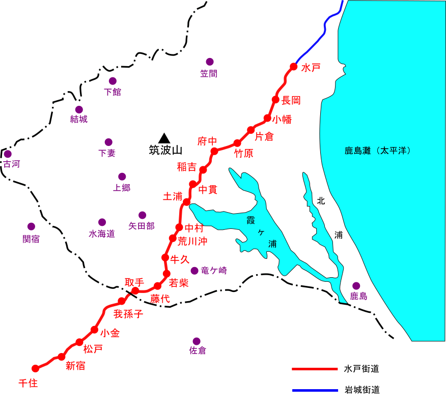 Map of the old roads of Mito kaido(road), Route of modern times.Red”水戸”is Mito.